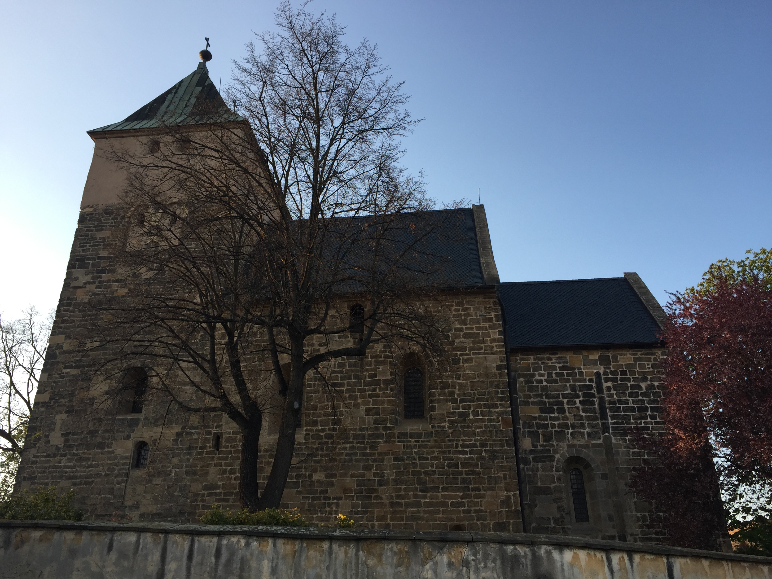 Church of Saint Bartholomew in Kyje, Prague, Czech Republic